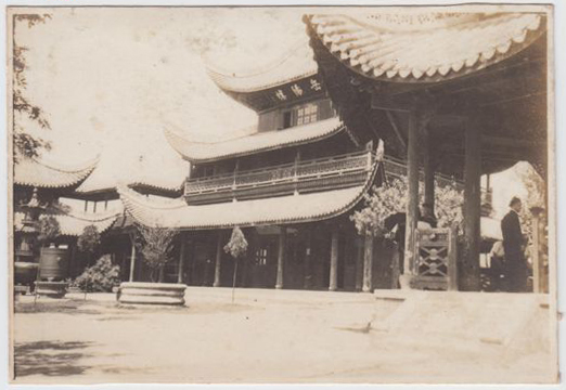 Yueyang Tower on a postcard issued during Japanese occupation.